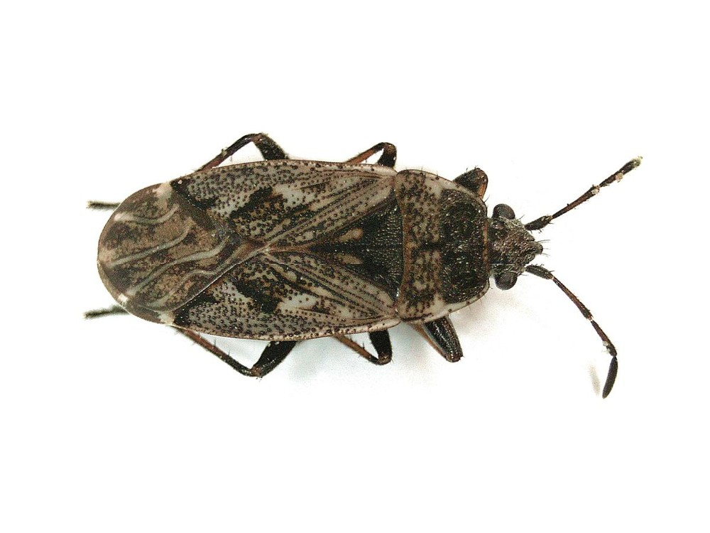 Sphragisticus nebulosus (Lygaeidae) - (imago), Arnhem - Schuytgraaf, the Netherlands